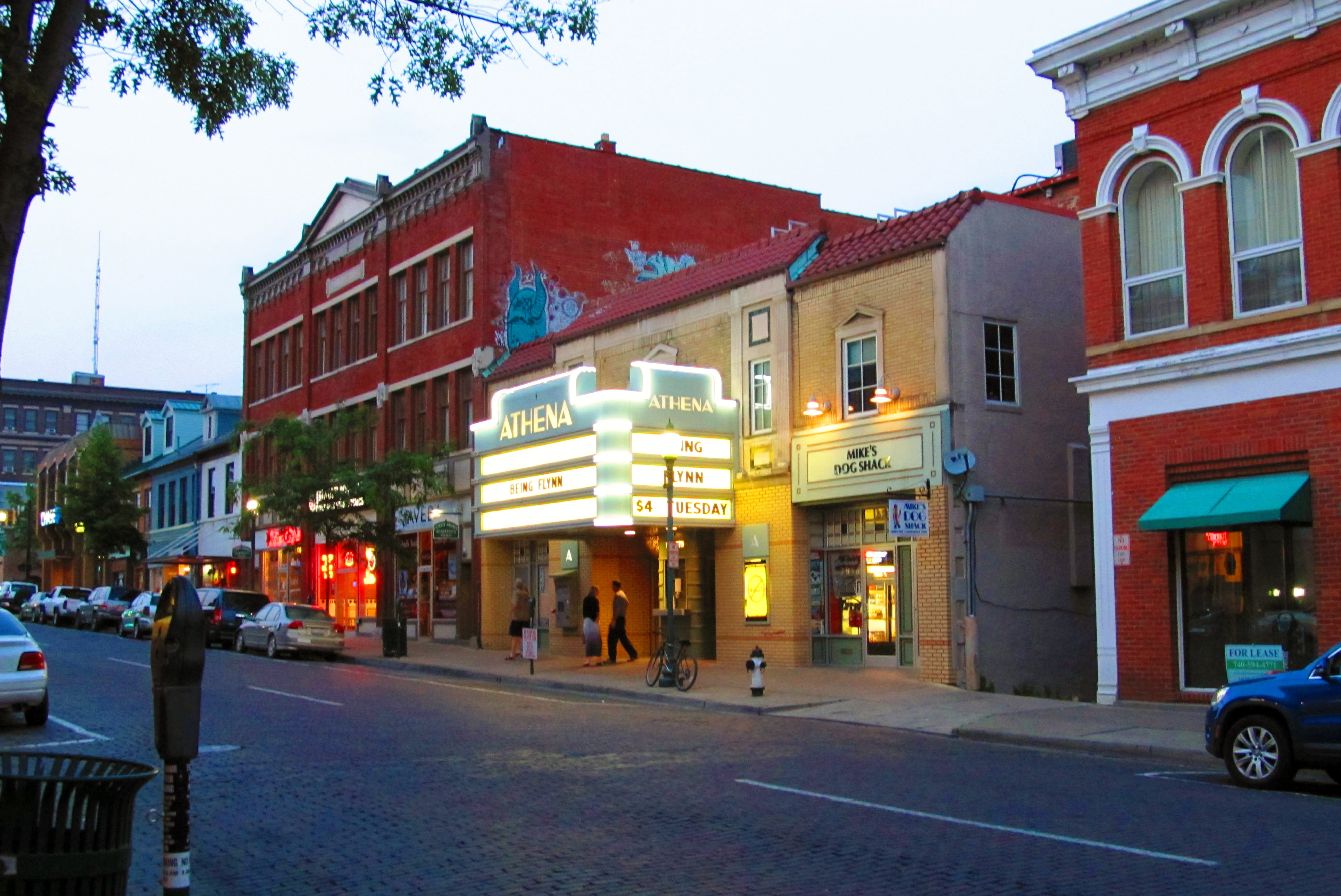 Athens Downtown Historic District